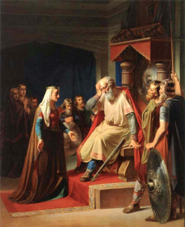 King Gorm the Old receives the news of the death of his son Canute(Danish: Thyra Dannebod meddeler Kong Gorm den Gamle underretning om hans søn Knuds død)